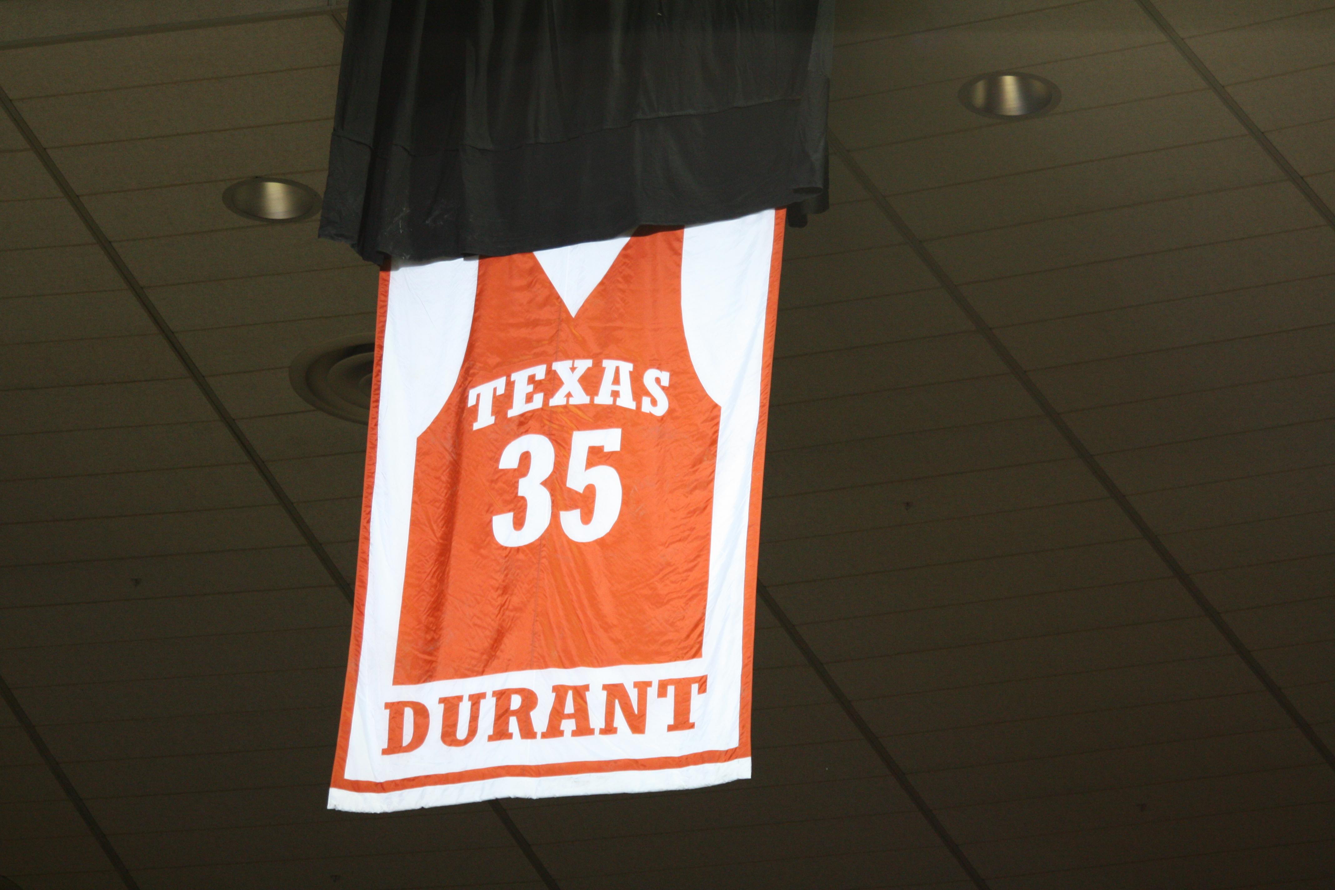 kevin durant's number never to be worn again at Texas